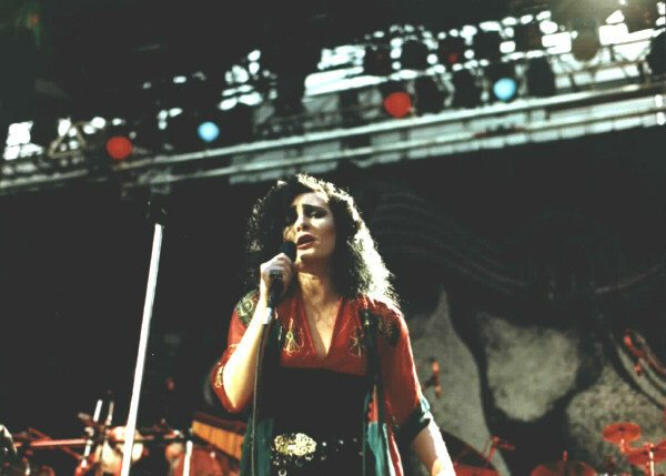 siouxsie and the banshees photographed in california at lollapalooza in 1991